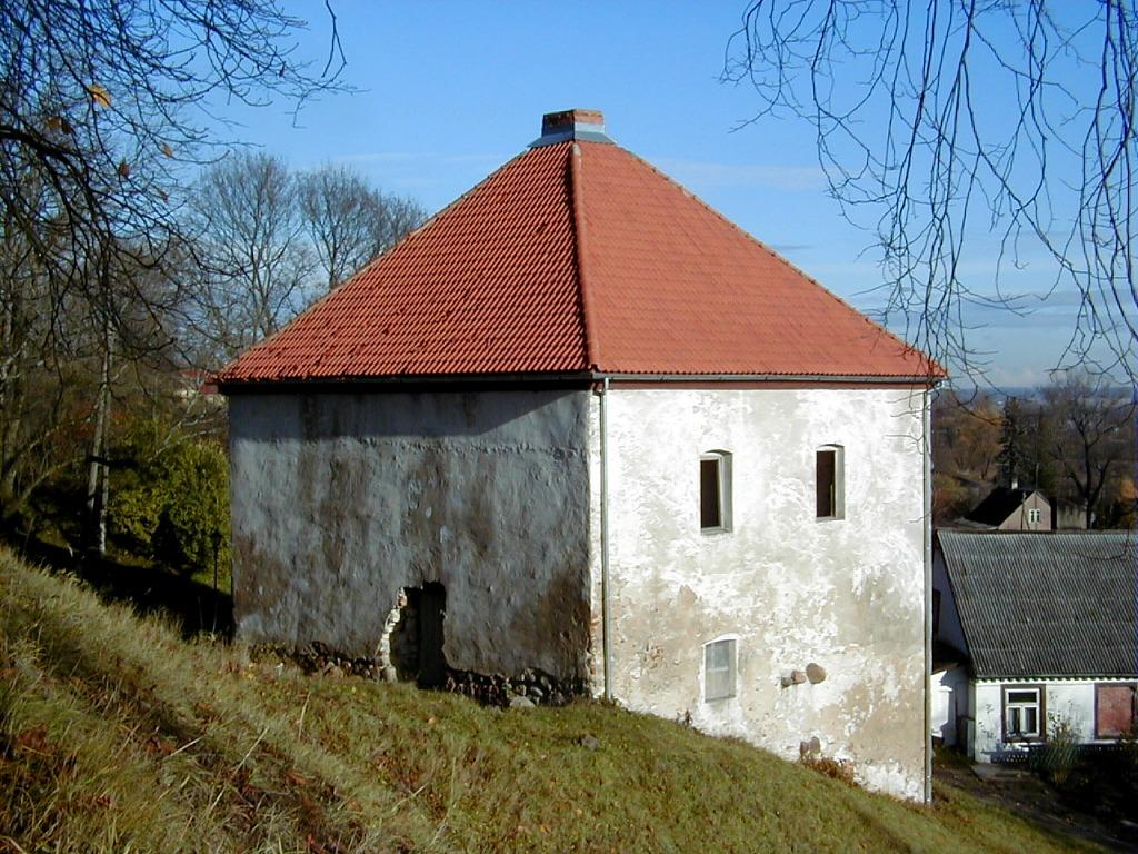 Kandava gunpowder storage tower, originally built as a guard tower in 1334